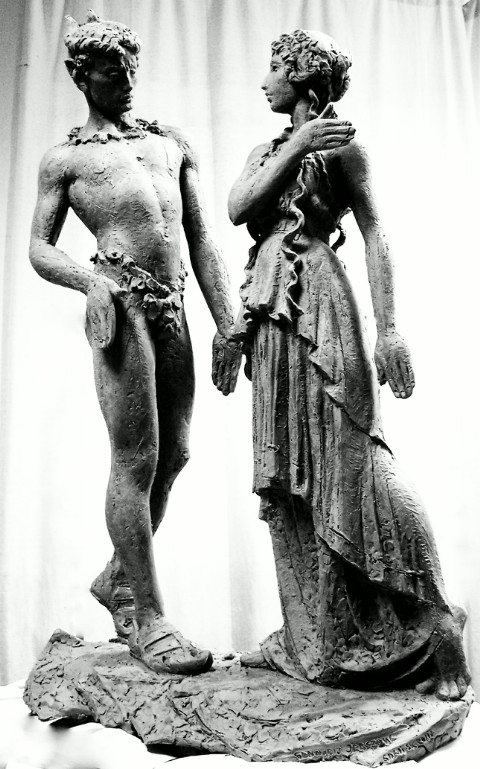 Nijinski Vaslav and Bronislava by Gennadij Jerszow.Grand Theatre, Warsaw